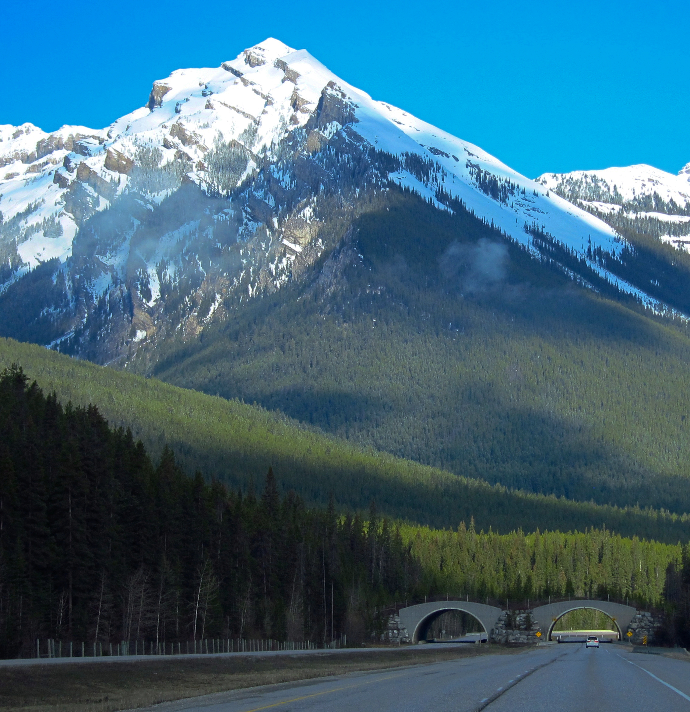 Massive Mountain seen from Icefields Parkway, Banff National Park , Alberta